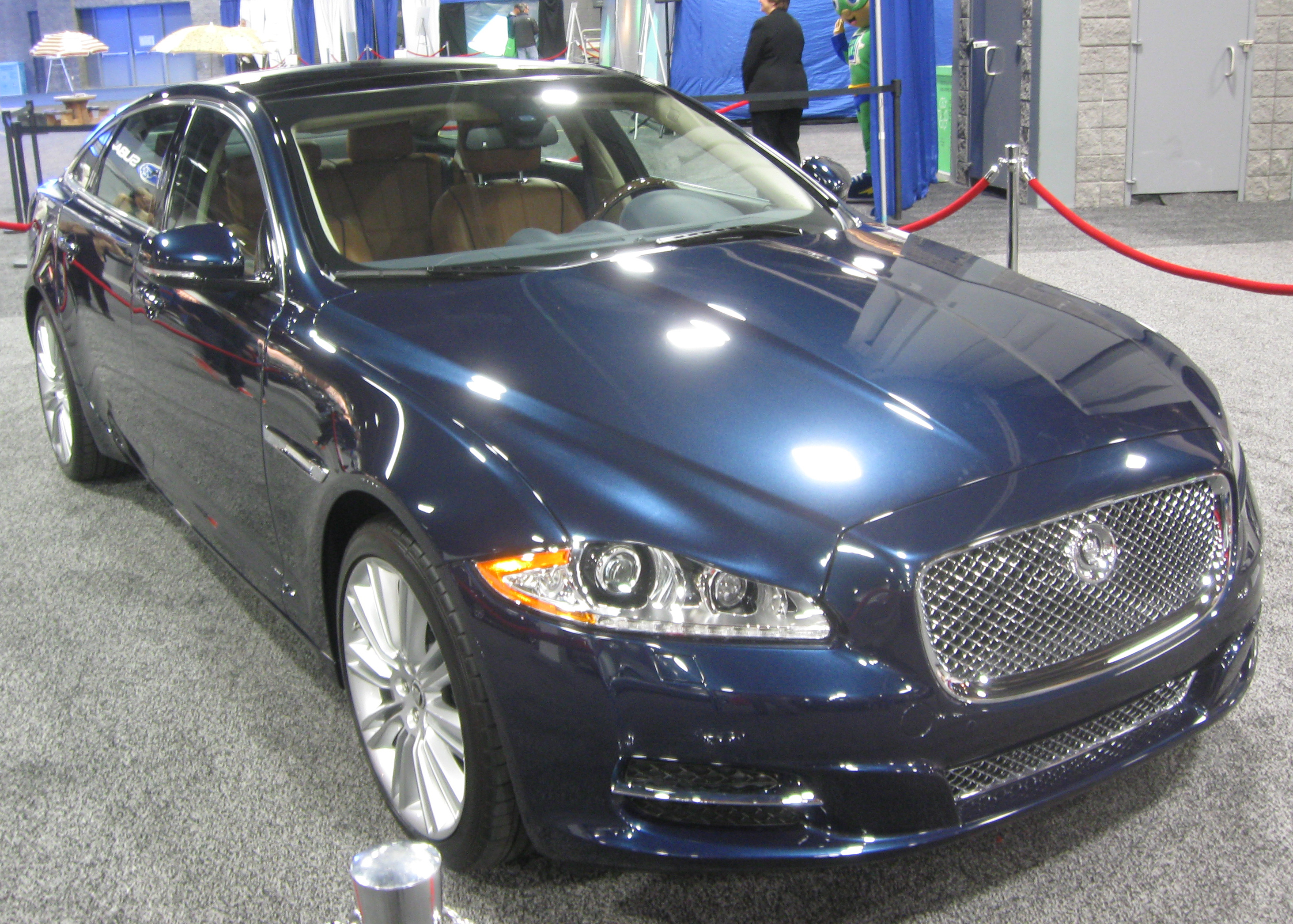 2010 Jaguar XJ photographed at the 2010 Washington Auto Show.